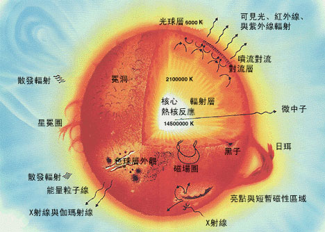 Chinese text version of the Suns interior. Original by NASA, edited by me.